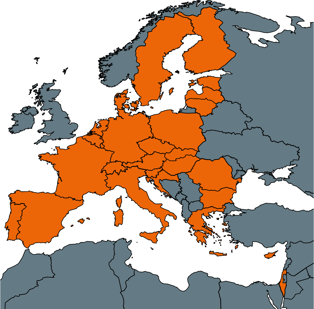 Countries participating in wave 4 of the SHARE study